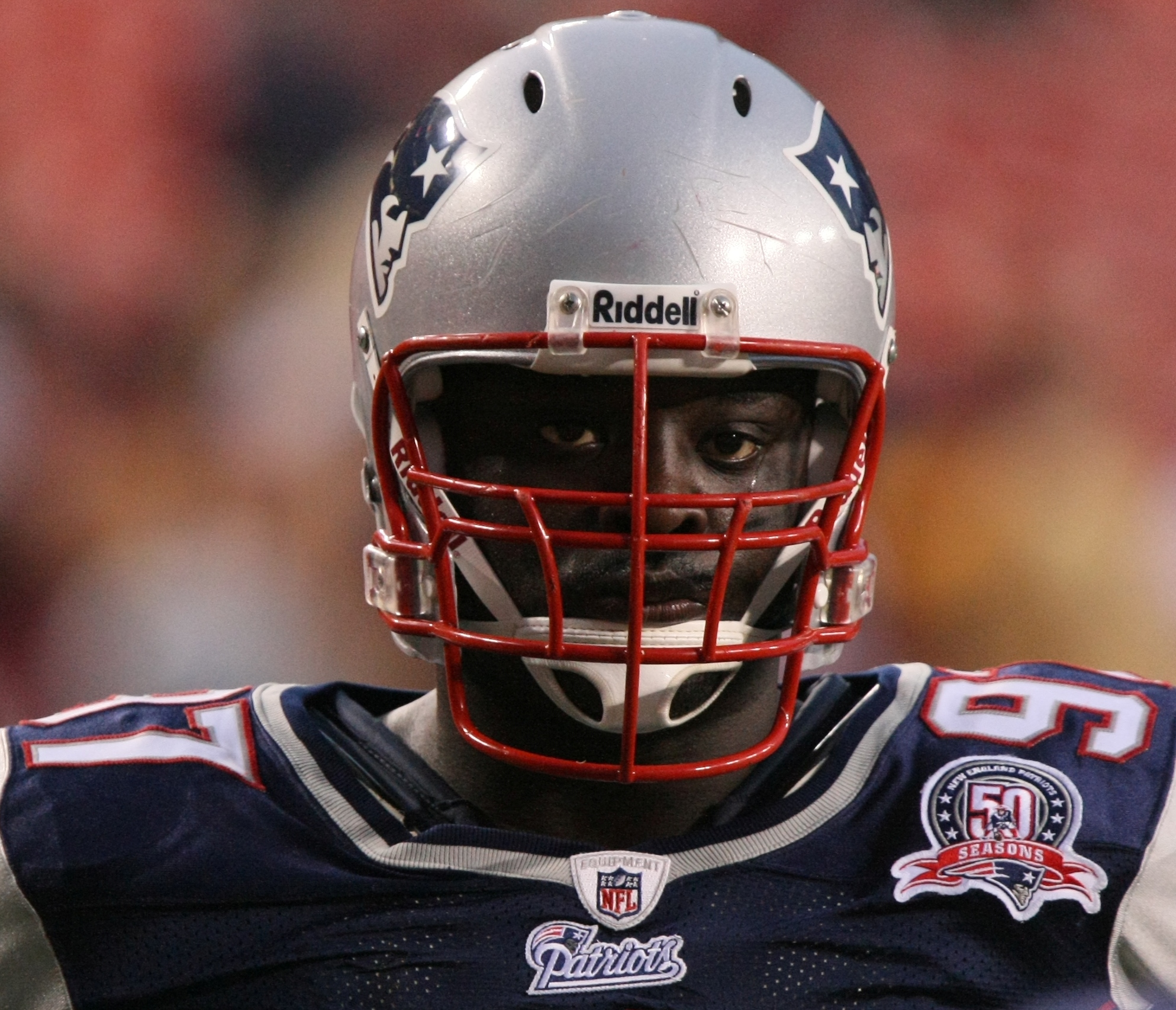 New England Patriots defensive end Jarvis Green at the preseason game against the Washington Redskins on August 28, 2009.